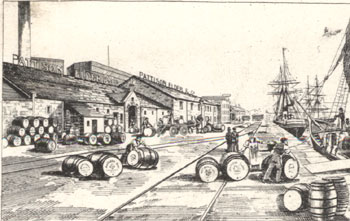 Advertisement for Pattison's Whisky